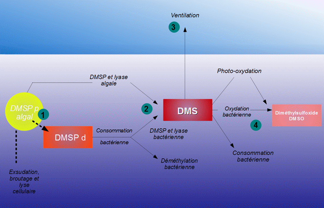 Schema of the DiMéthyl Sulfate (DMS) cycle into oceans according to CLAW hypotesis : 1) Seaweeds produce of the dimethylsulfoniopropionate (DMSP) to keep their osmotic balance with the sea water. 2) In the sea, the DMSP reacts and is destroyed, then forms DMS. 3) A fraction of it DMS, we do not know exactly how much, spreads into the atmosphere. 4) The rest is consumed by bacteria or destroys by the beams of the sun which transform it into diméthylsulfoxide (DMSO).